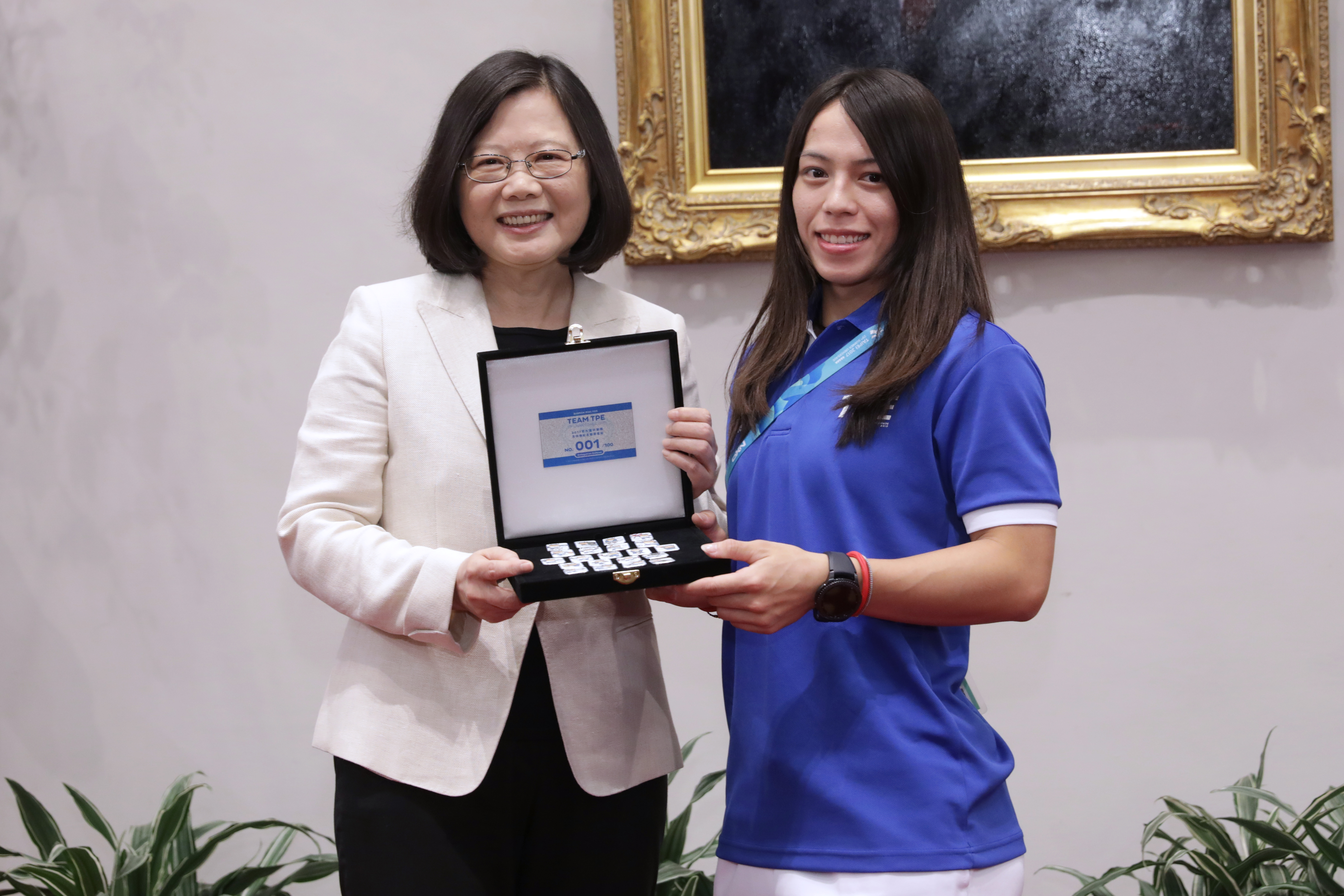 授權方式及範圍：中華民國總統府│政府網站資料開放宣告 Authorization Method & Scope: Office of the President, Republic of China (Taiwan) | Government Website Open Information Announcement